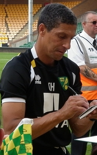 Chris Hughton at Norwich City's open training session on 9 August 2012.